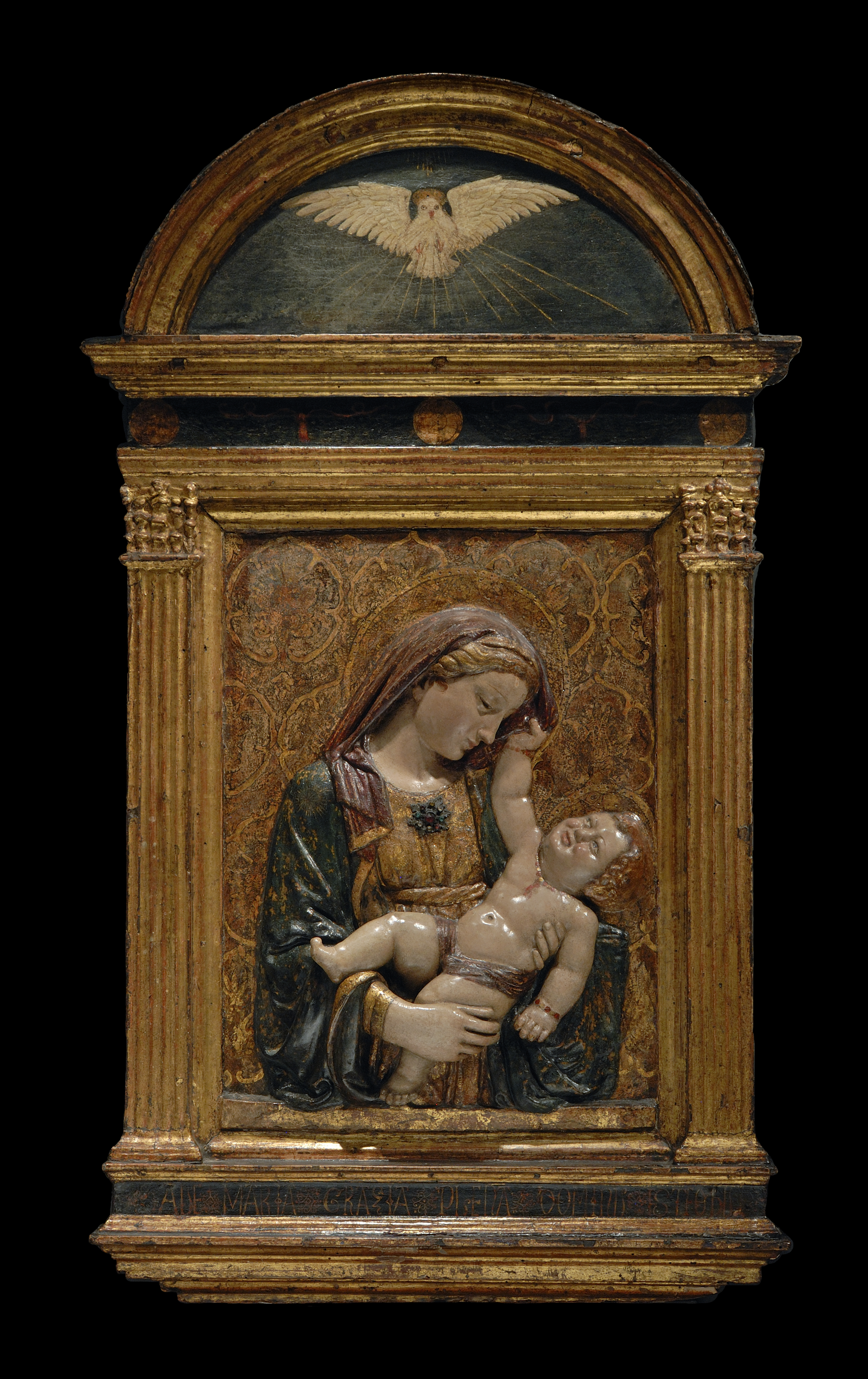 Courtesy of Altomani & Sons - Milano Pesaro (Alfredo Bellandi, Andrea Cavalcanti, discipulo Filippi ser Brunelleschi, Parigi, 2018, pag. 248, fig. 215)